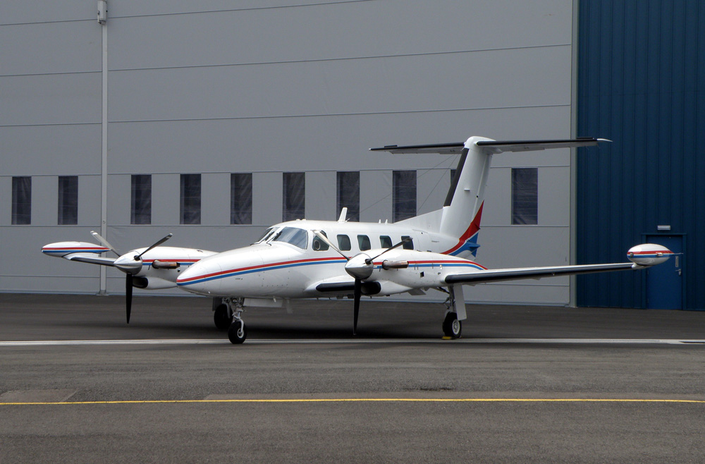 Piper Cheyenne IIIA PA42-720 Owned by Air Medical Ltd